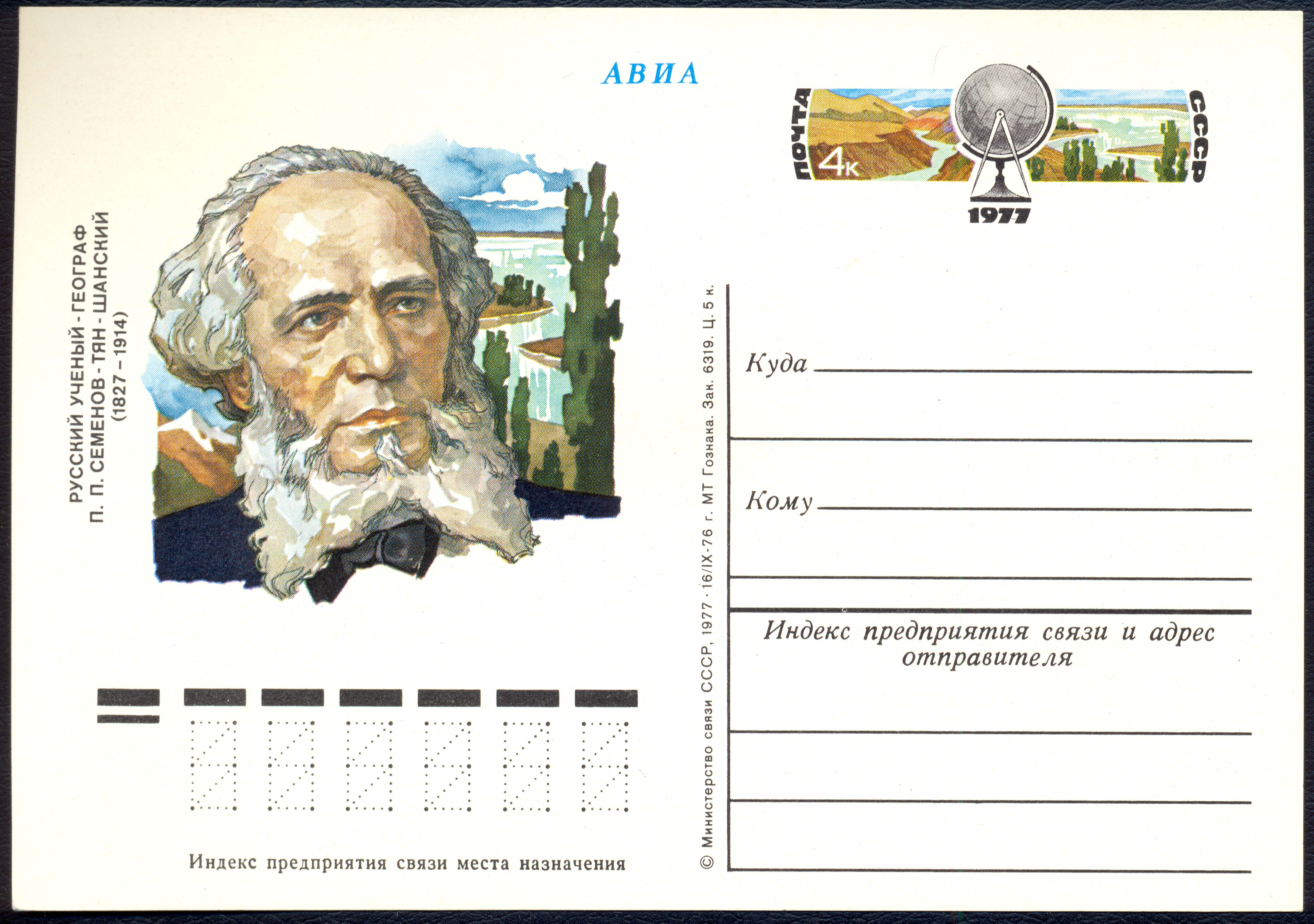 USSR postal stationary - Stamped post card dedicated to Pyotr Semyonov-Tyan-Shansky, Russian Geographer (1827-1914) with original stamp, 1977, 4 kop.